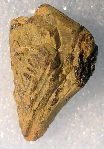 Euxenite-(Y) Locality: Besakoa (Besekoa), Madagascar (Locality at ) Size: 2.5 x 1.5 x 1 cm. An exceptionally well-crystallized specimen of the rare Yttrium Niobate, Euxenite. This tan-colored fan is composed of blades about .15 cm thick and 1.2 cm across. Ex. Dick Bideaux Collection (originally labelled "fergusonite").